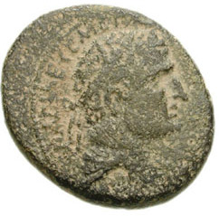 JUDAEA, Herodian Kings. Herod Agrippa I. 37-43 CE. Æ 22mm (9.02 g, 1h). Caesarea Maritima mint. Dated RY 7 (42/3 CE). BACILEYC MEGA[C AGRIPPAC FILOKAICAP], diademed head right / KAICAPIA H PPOC TW C[EBACTW LIMHNI], Tyche of Caesarea standing left, holding rudder in right hand and palm in left. Meshorer 122; A. Burnett, "The Coinage of King Agrippa I of Judaea and a New Coin of King Herod of Chalcis," Mélanges Bastien, -; RPC I 4985; Hendin 555; SNG Copenhagen -; BMC 20 corr. (Caesarea Samariae; Tyche holding cornucopiae). VF, black-green patina with sandy overtones.